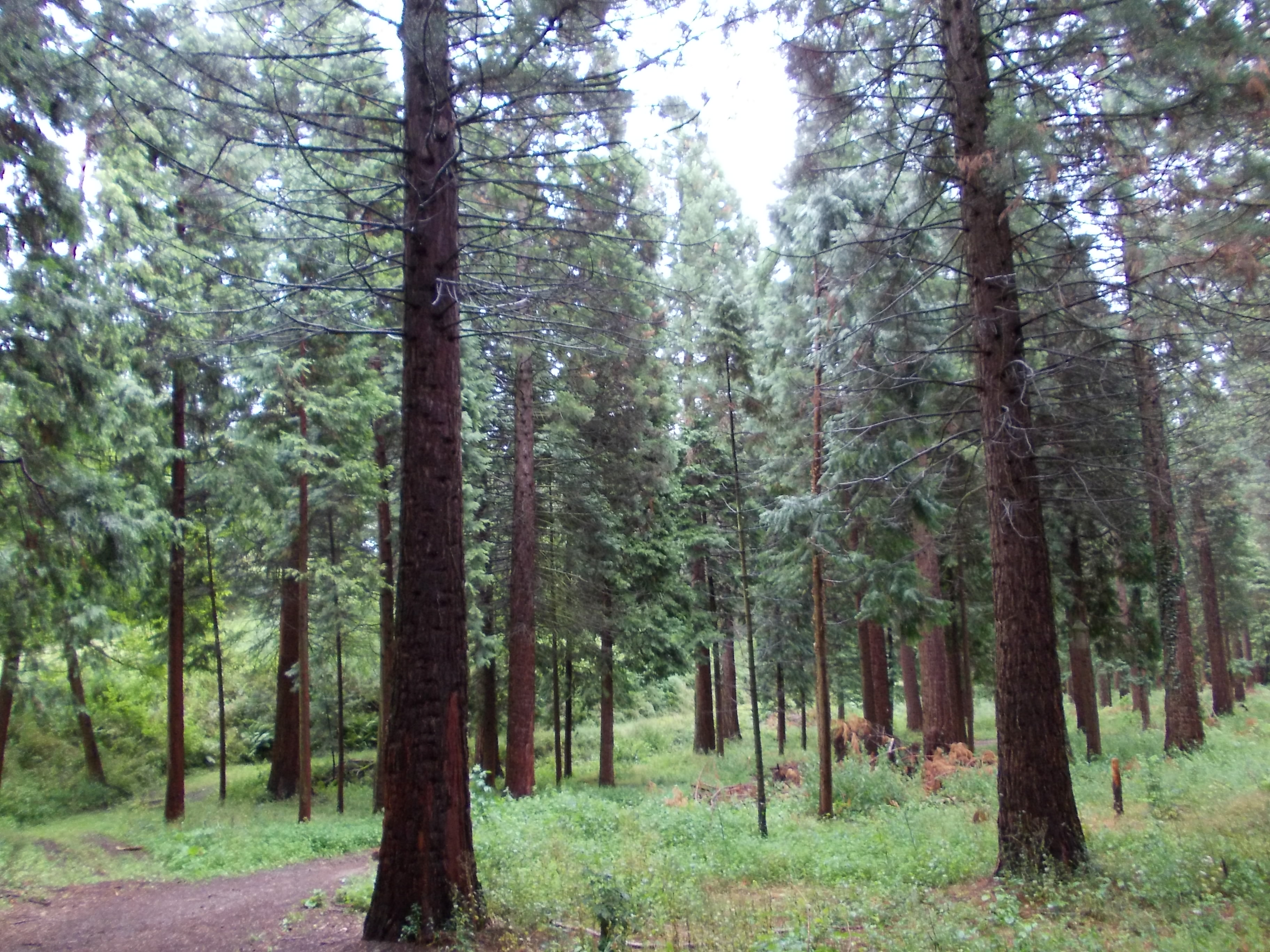 Some Sequoia gigantum in the Liliental arboretum, Germany